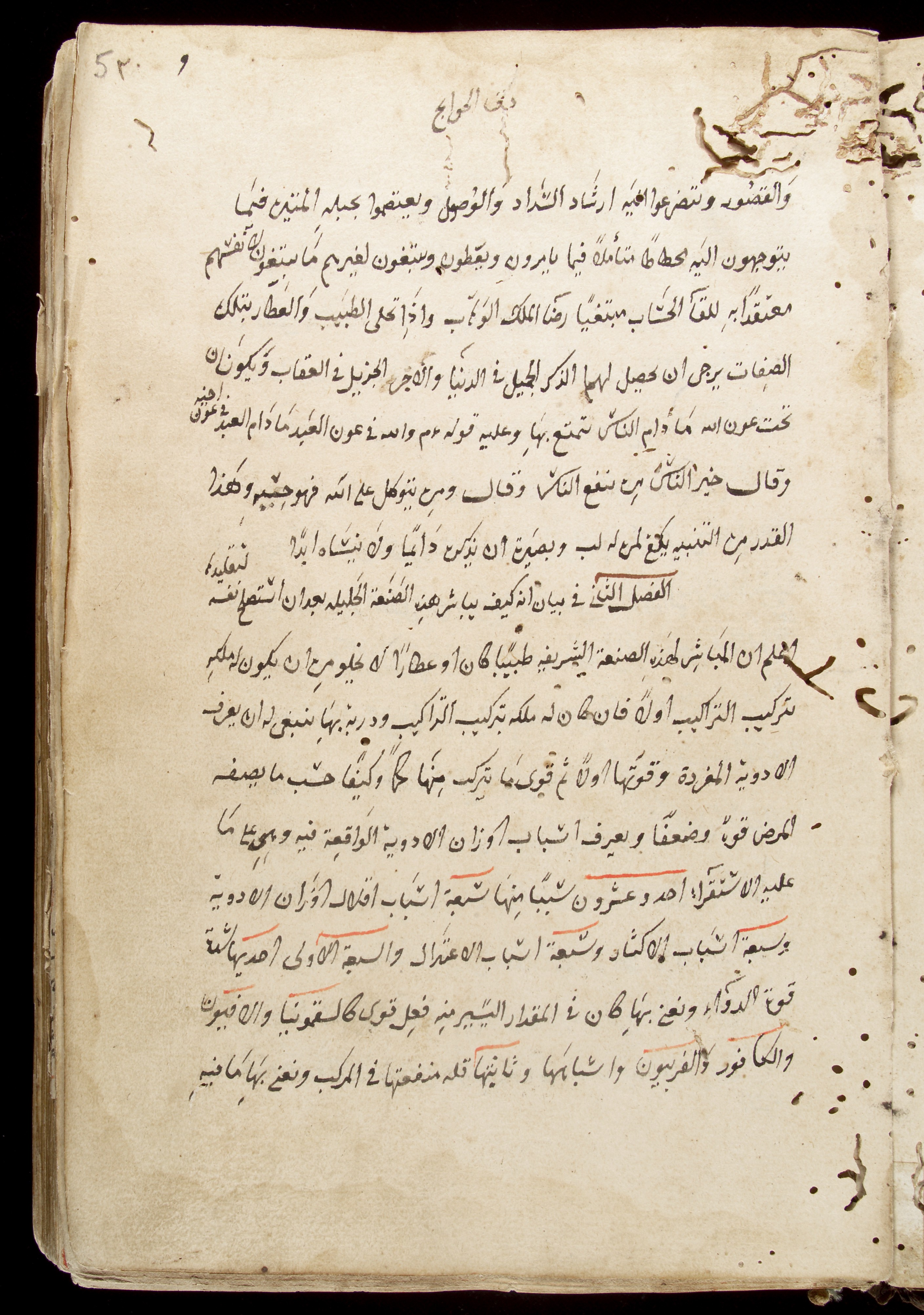 Page from Kitab Tibb al-Fuqara' wa-l-Masakin, an Arabic medical text in naskh script, Asian Collection Keywords: Arabic